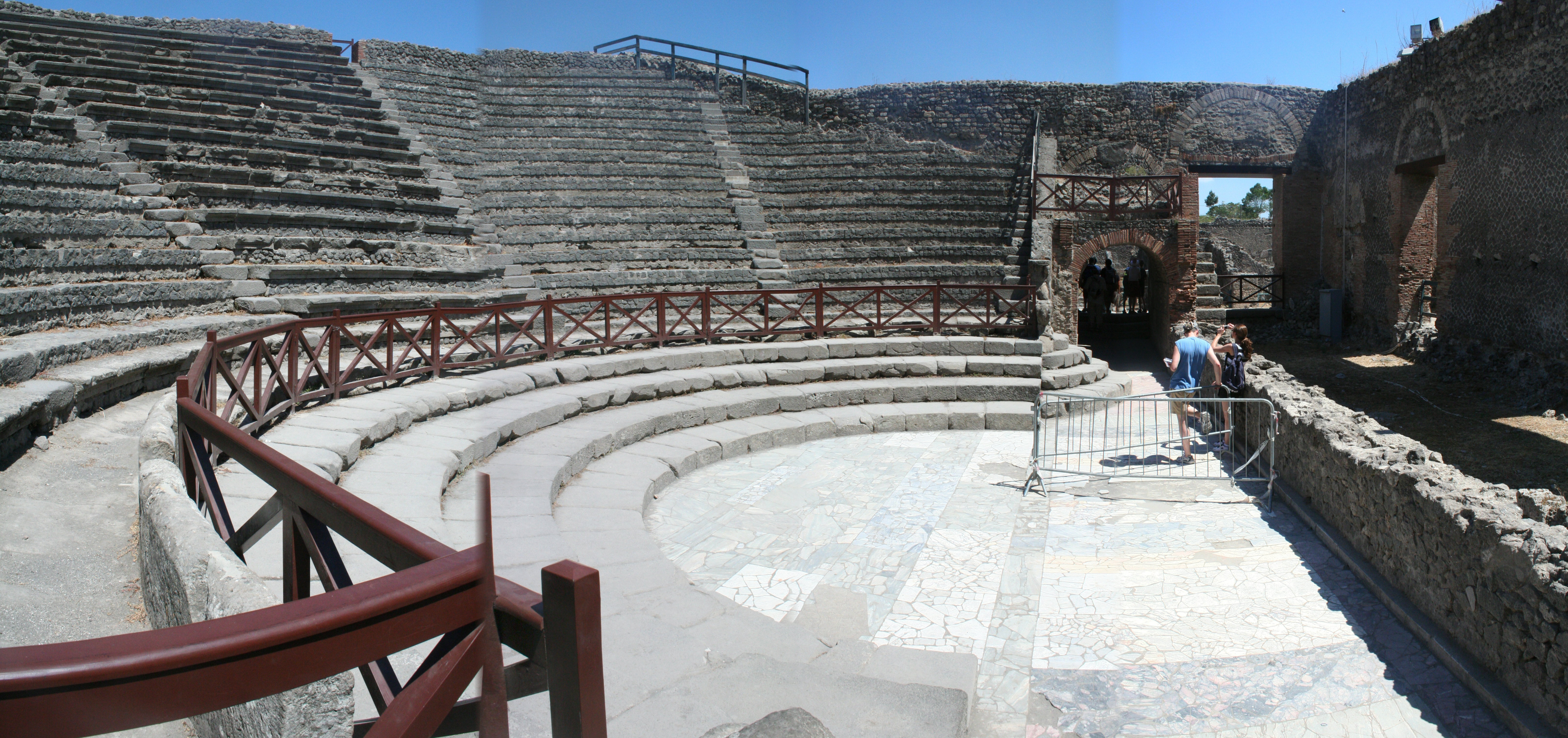 little theater (Odeion) in Pompeji